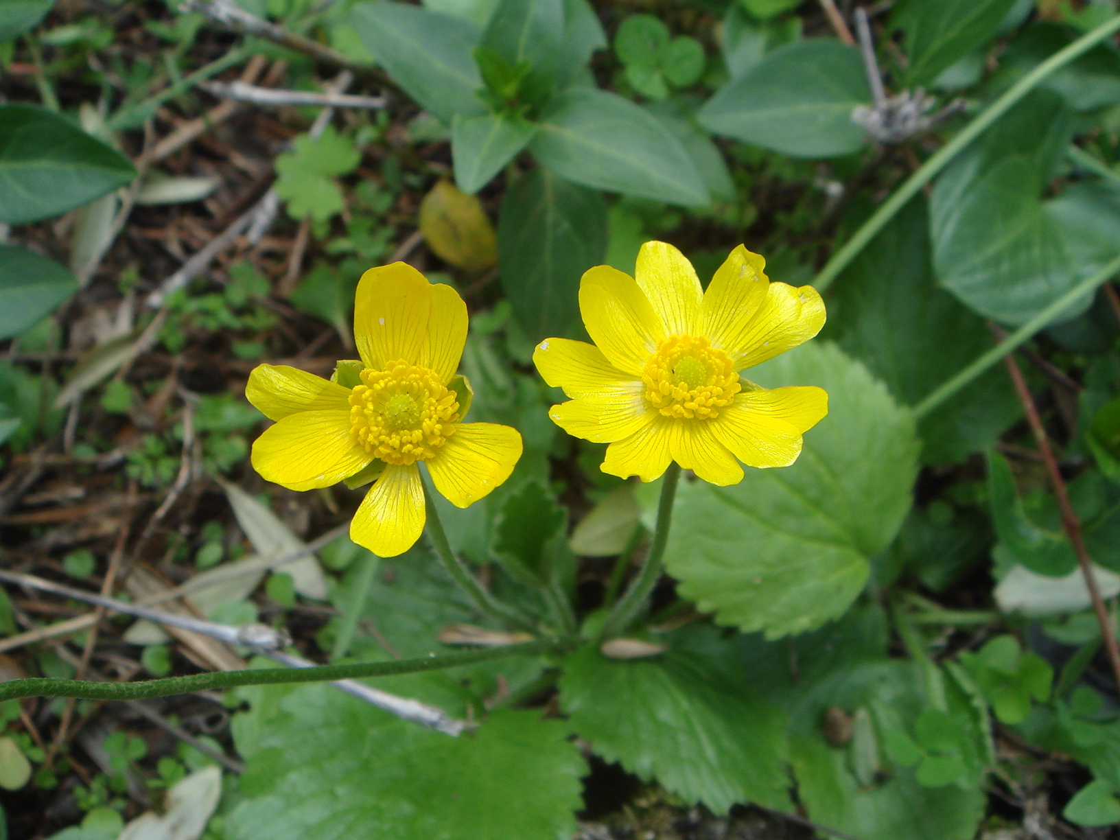 (Ranunculus bullatus), Spain.